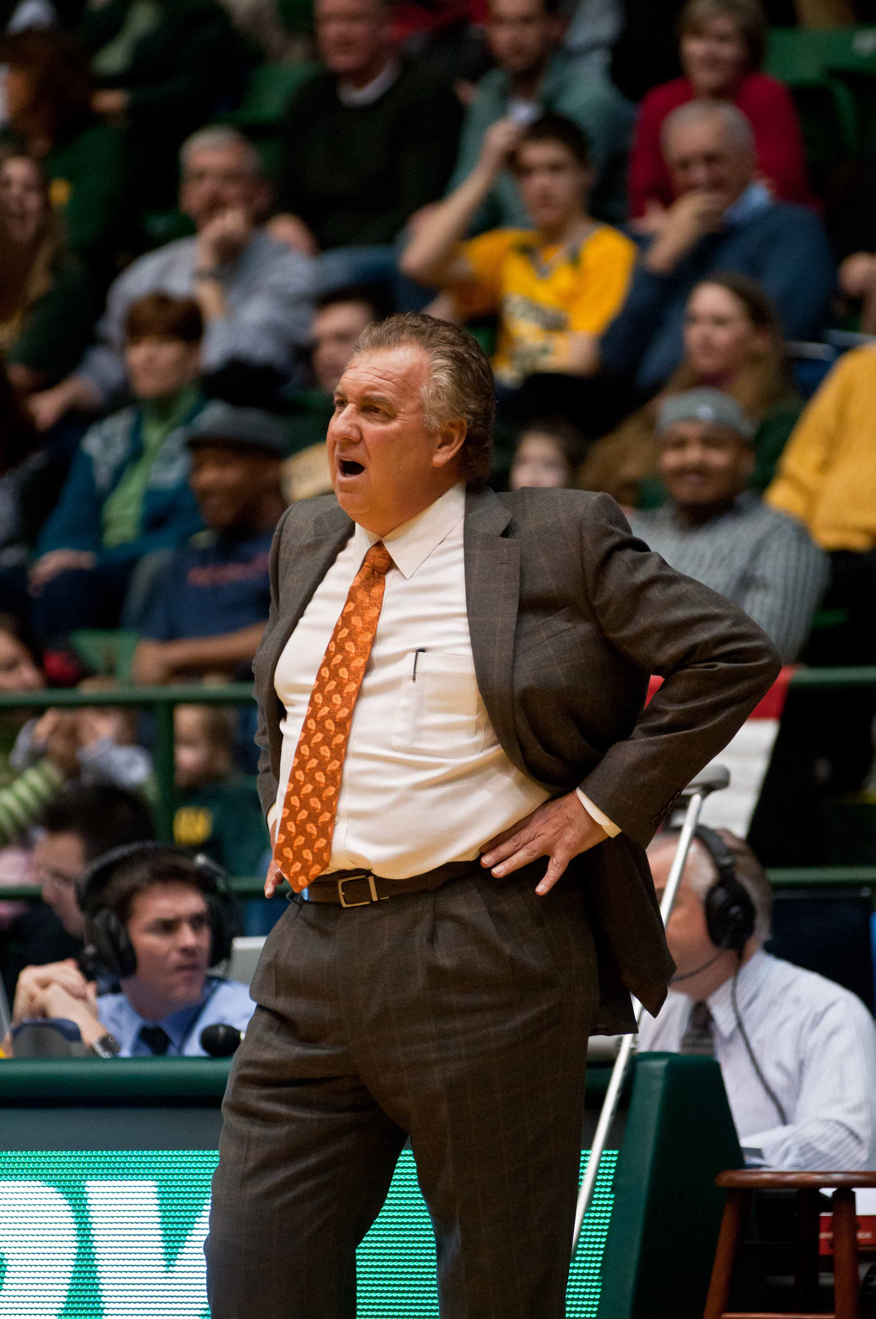 Blaine Taylor coaches his Old Dominion Monarchs in a 54-50 loss at George Mason in 2012.